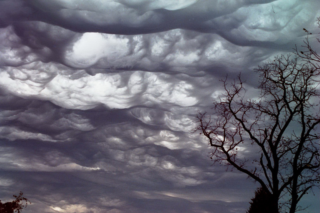 Stratocumulus stratiformis opacus lacunosus undulatus asperitas clouds over Pocahontas, Missouri.